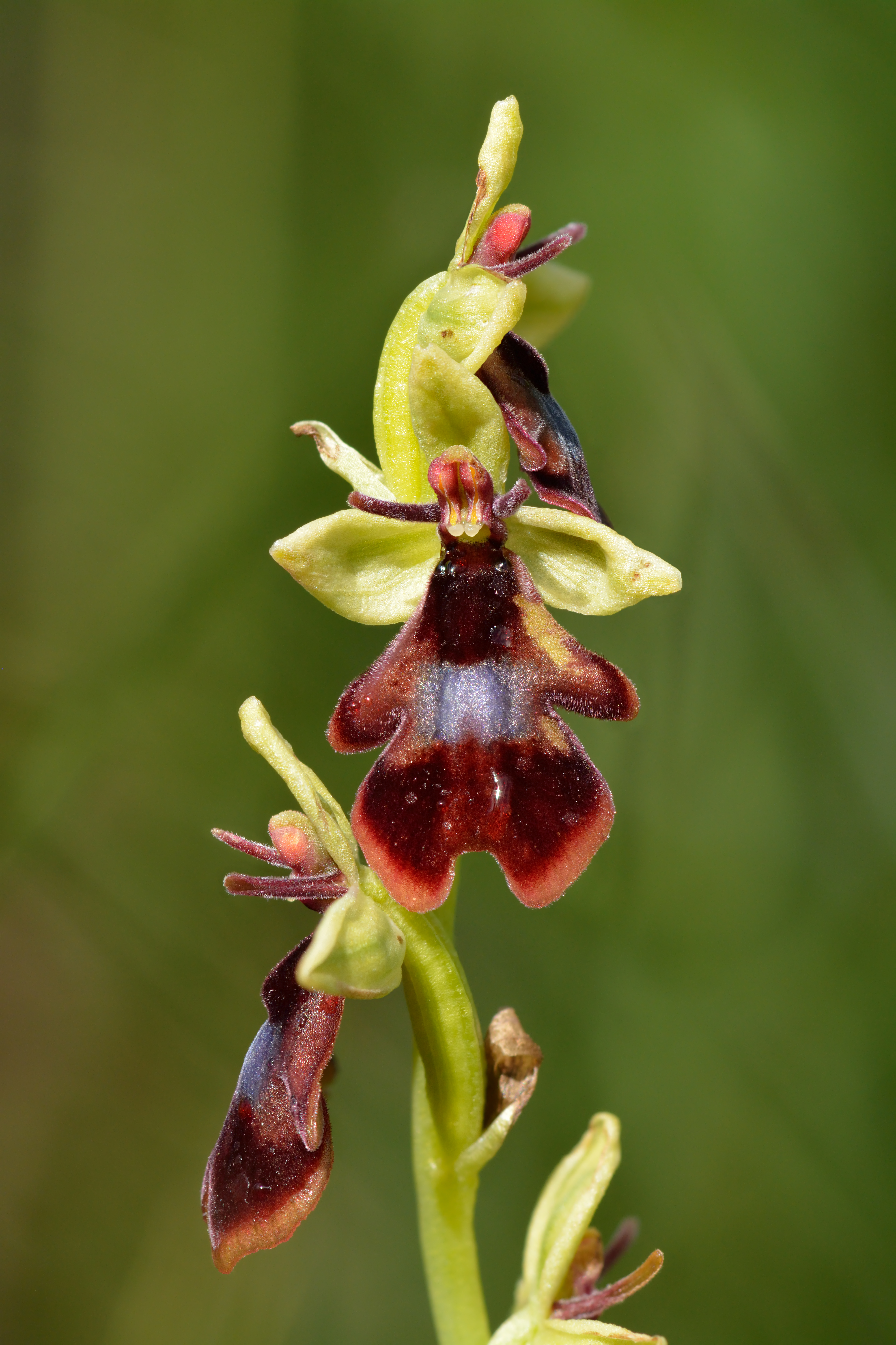 Fly orchid, flower size ca 13×16 mm (width × height).